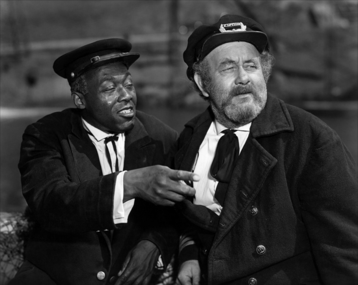 Stepin Fetchit (left) & Chubby Johnson in Bend of the River - publicity still